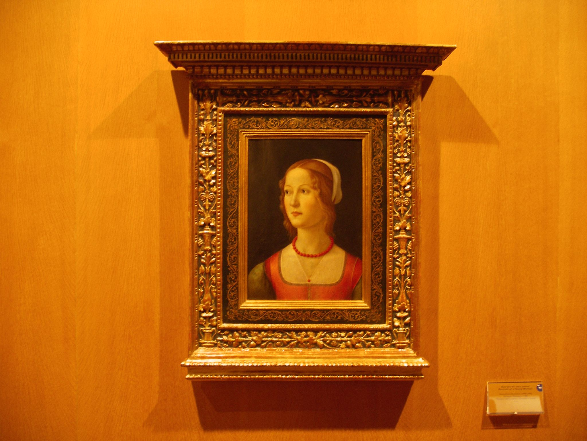 A painting of a young woman. It shows a young lady dressed in the fashionable Florentine custom of her time with layers of tight fitting clothes and a coral necklace.